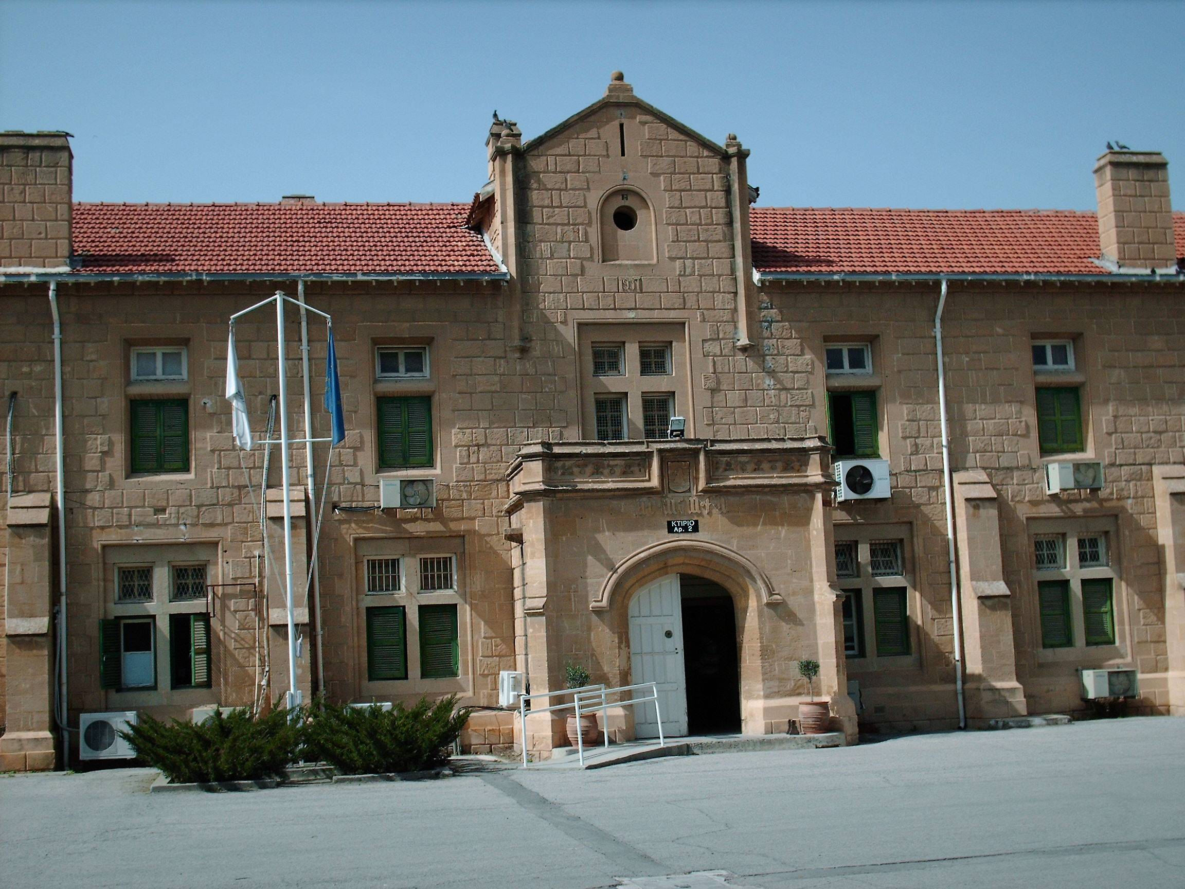 One of the Nicosia Law Court buildings that face the courtyard at the front of the compound. The courts site contains the Nicosia District Court and the Supreme Court of Cyprus, the latter now in a new building to the left of the building shown in this photograph